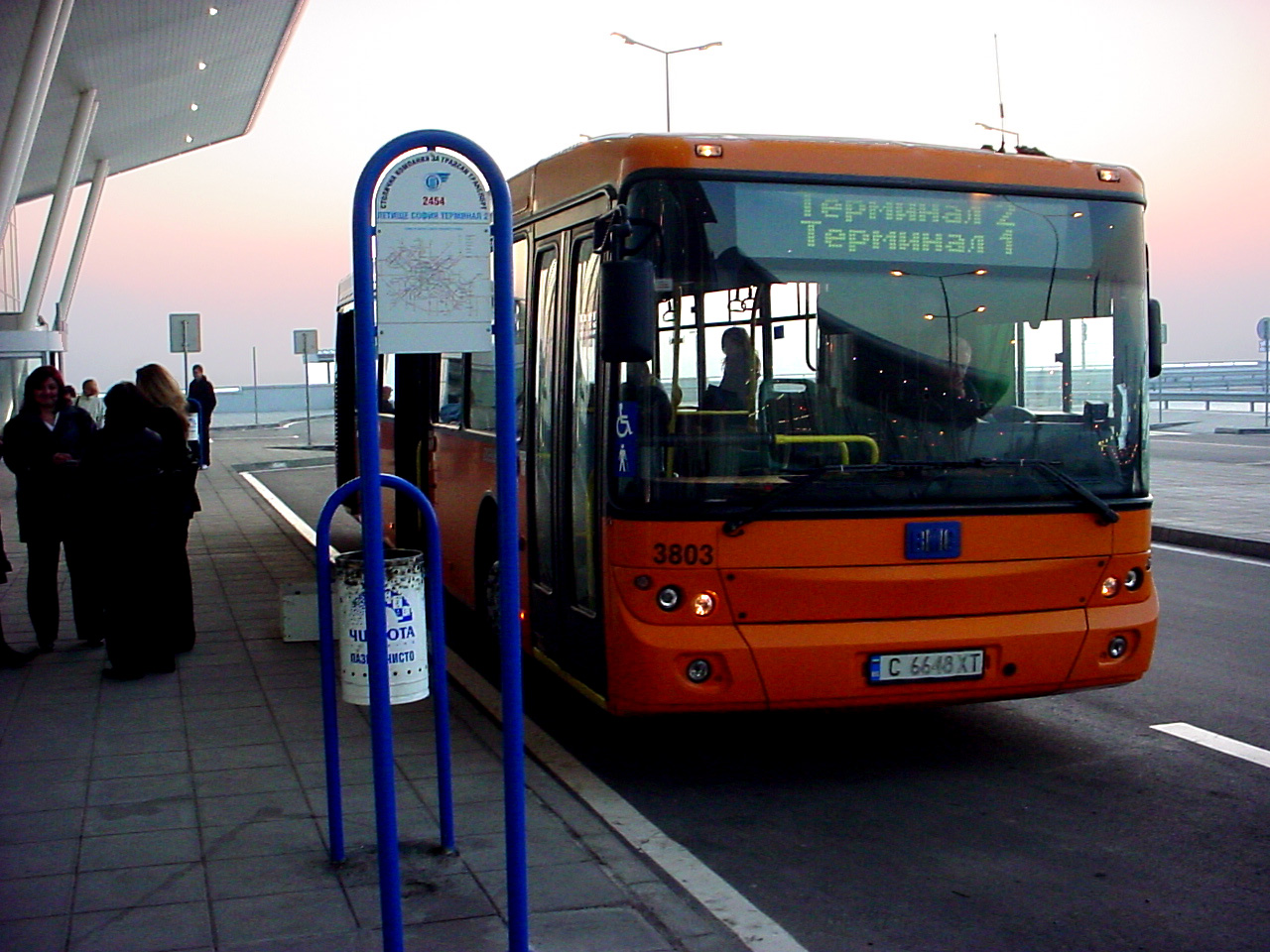 BMC Belde 220 SLF bus (#3803, reg. С 6648 ХТ) in Sofia Airport, Bulgaria. Built 2005, Столична Компания за Градски Транспорт (СКГТ) from Sofia (София) operator.